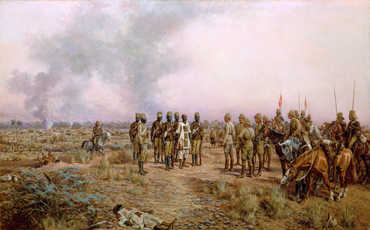 After the battle. The emir Mahmud brought prisonner to Herbert Kitchener. Atbara, 8 April 1898. National Army Museum.